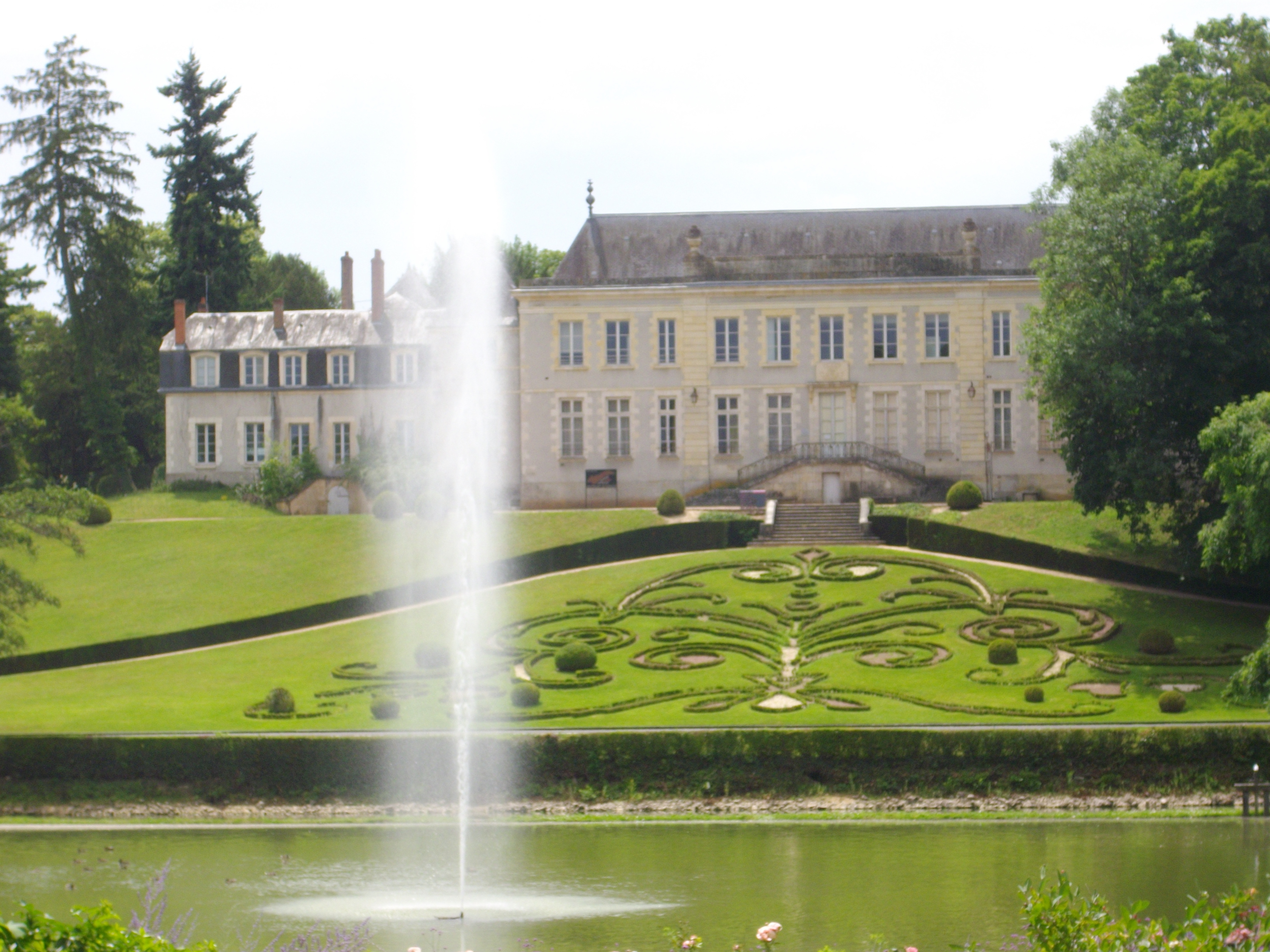 La Source floral garden, Orléans (Loiret, France) : castle